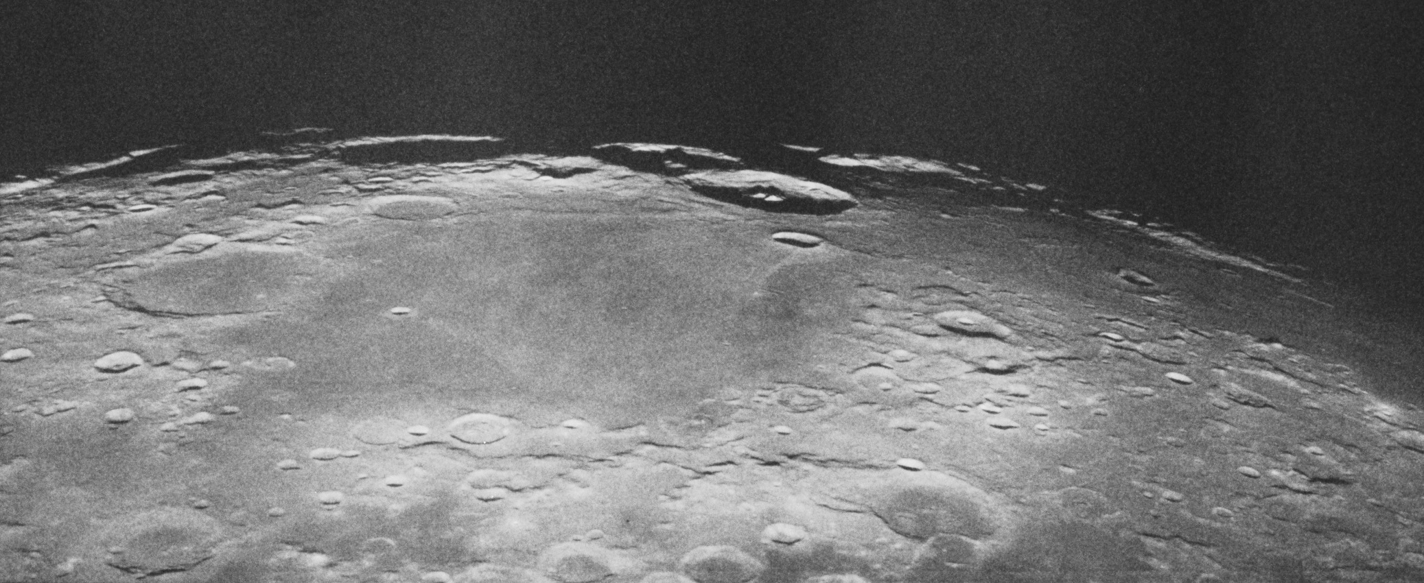 Oblique view of Mare Nectaris, including large craters Theophilus (near top center), and Fracastorius (left).